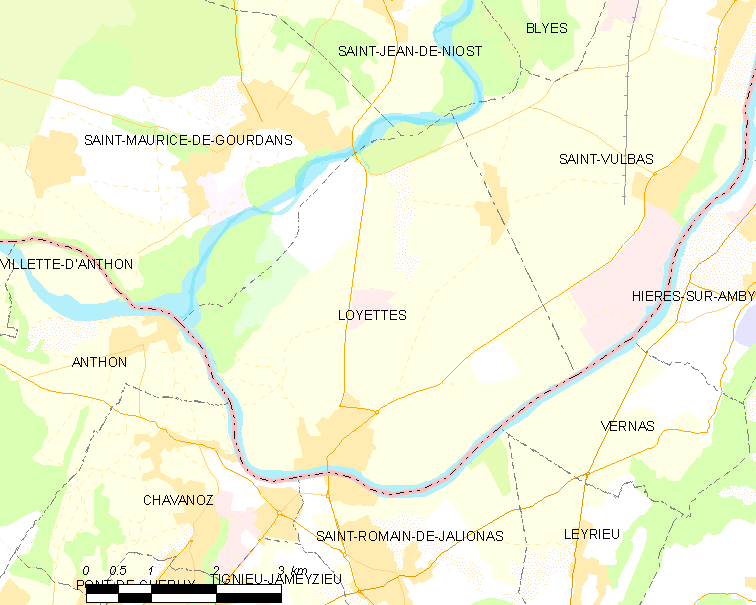 Map of French commune: Loyettes Map commune FR insee code 01224.png